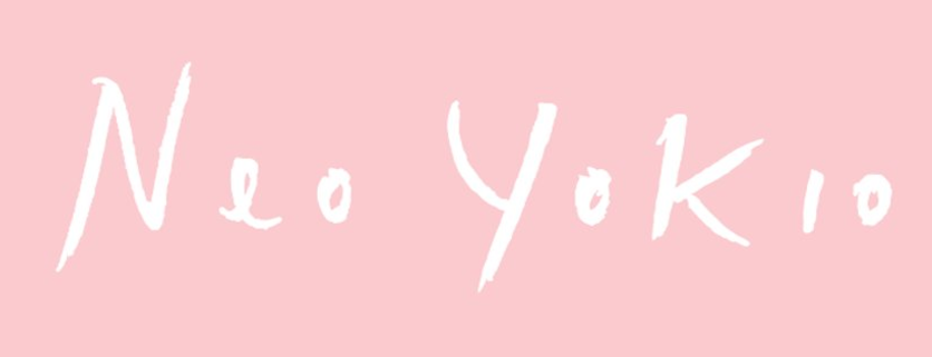 Logo for the television series Neo Yokio.